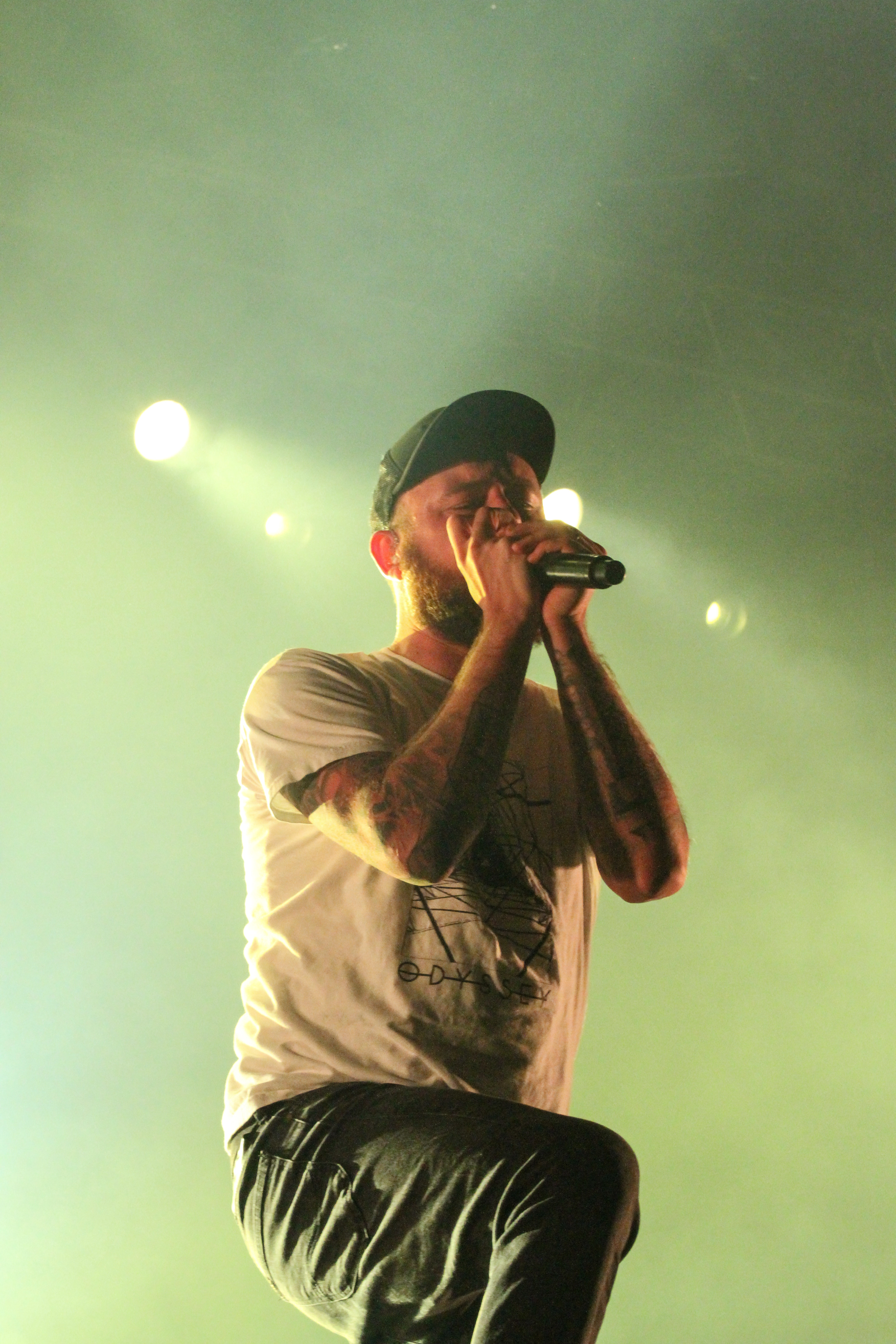 In Flames performing at With Full Force Festival 2013